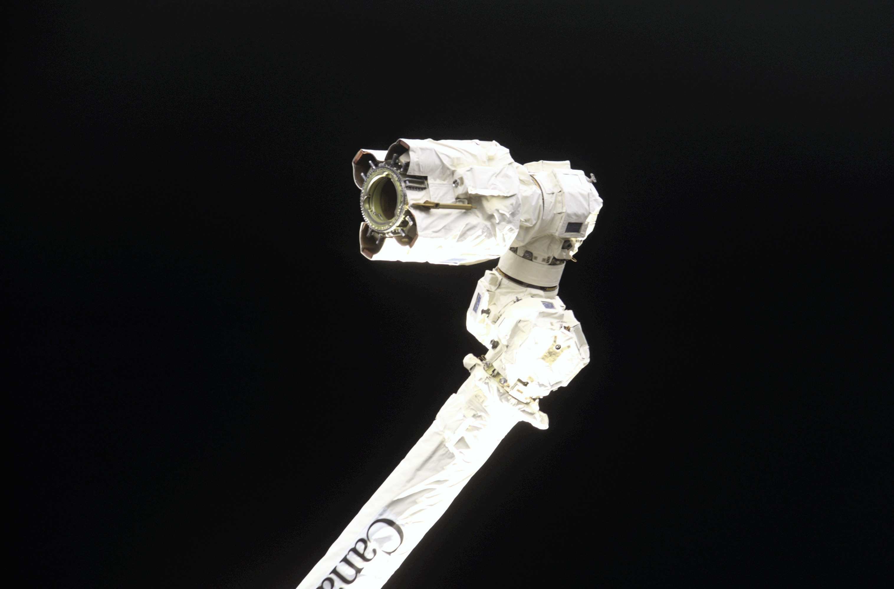 End effector of Canadarm2 taken by STS-108 (NASA) original description: View of the end effector of the Canadarm2 / Space Station Remote Manipulator System (SSRMS) taken by a STS-108 crewmember through an aft flight deck window during the docking approach of the Space Shuttle Endeavour to the International Space Station. This image was recorded with a digital still camera (7 December 2001).